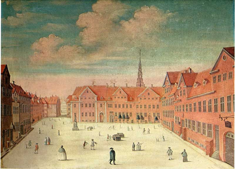 Ulfeldts Plads, now Gråbrødretorv, from 1749. In the background the spire of Church of Our Lady. See also here